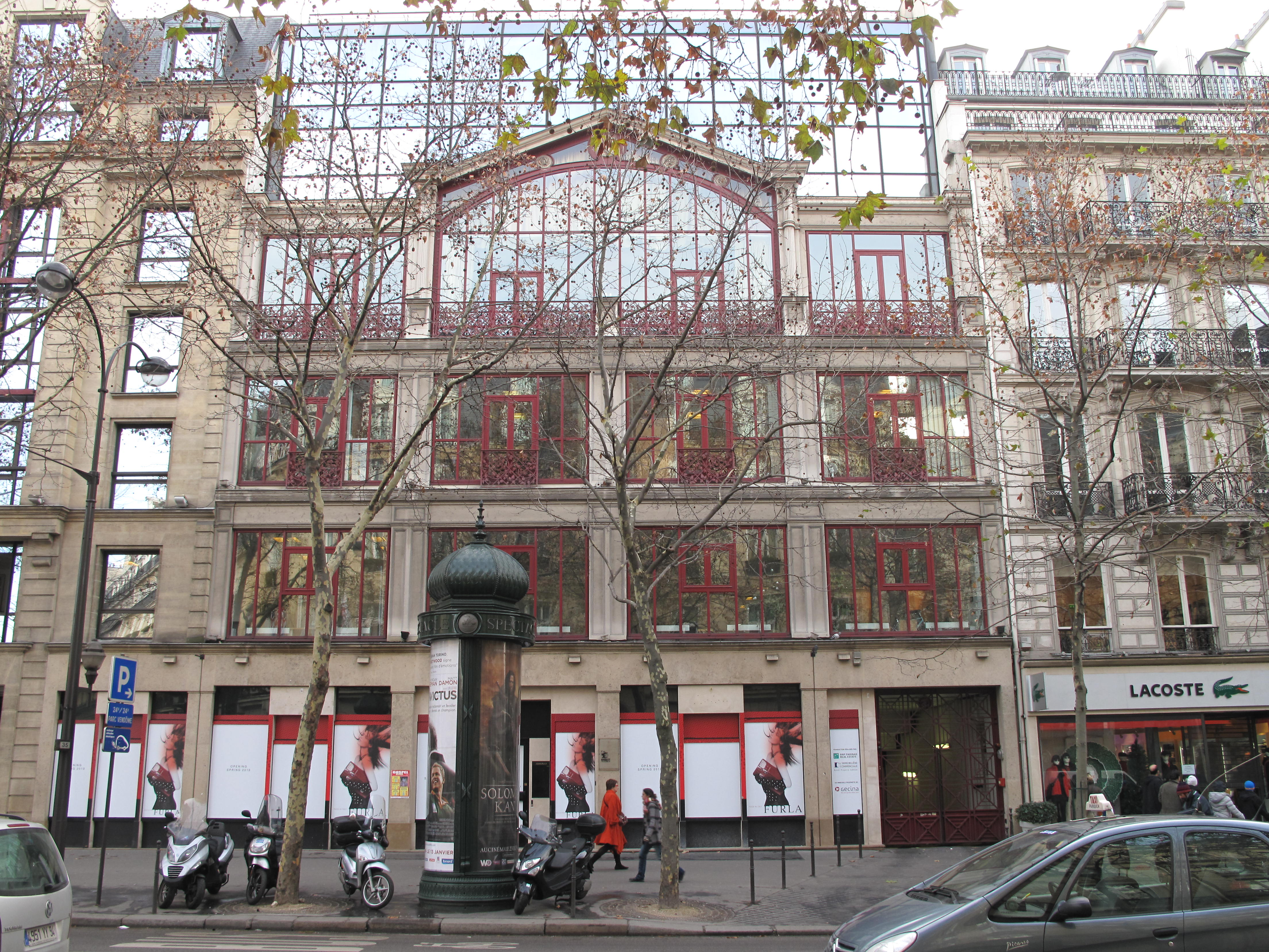 Workshop of the french photograph Nadar, 35 boulevard des Capucines, Paris 2nd arr. There took place in 1874 the first exhibition of the french impressionnist painters